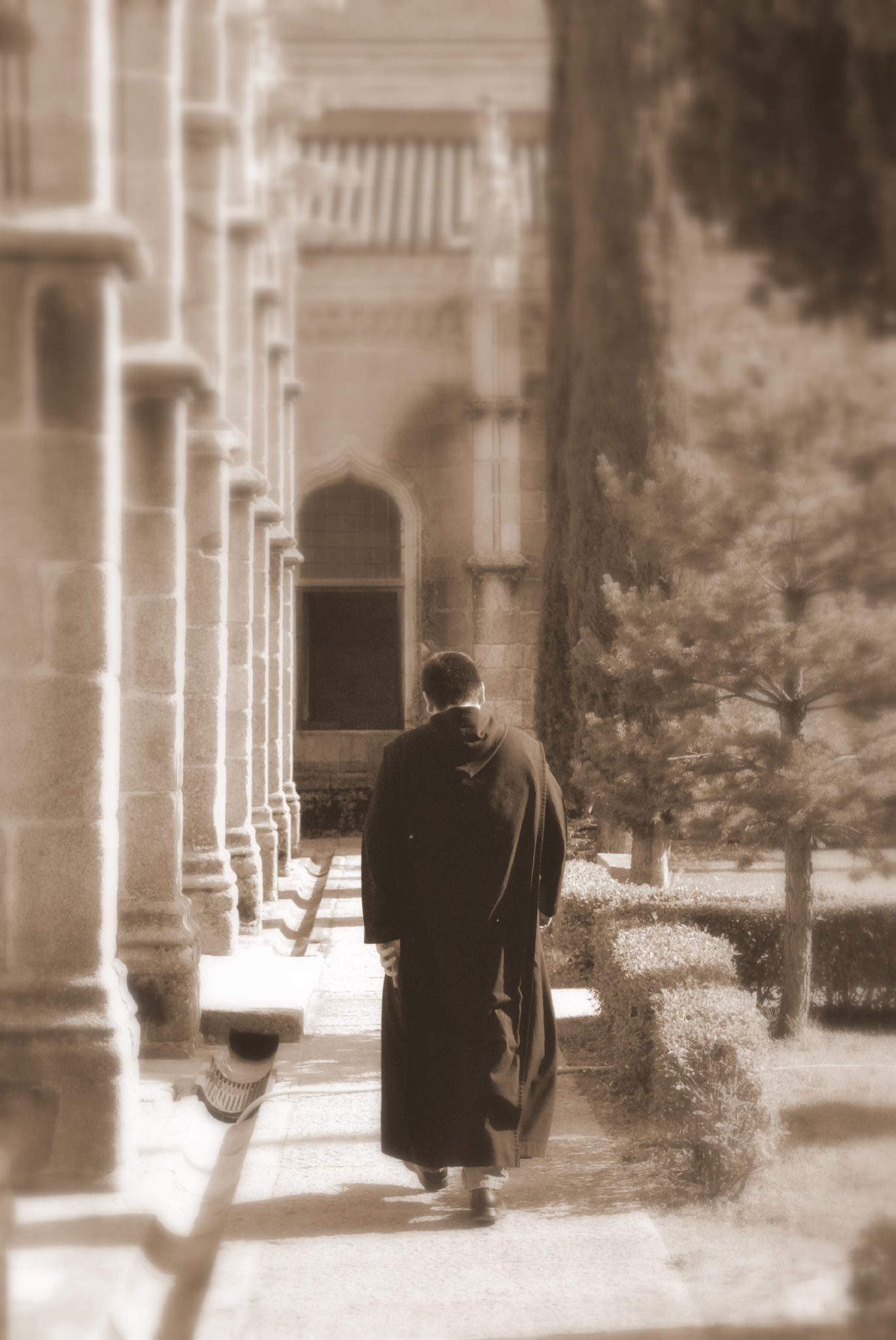 Paular Monastery, started building on 1390. A place for peace and meditation, where 11 Benedictines monks are living just praying.